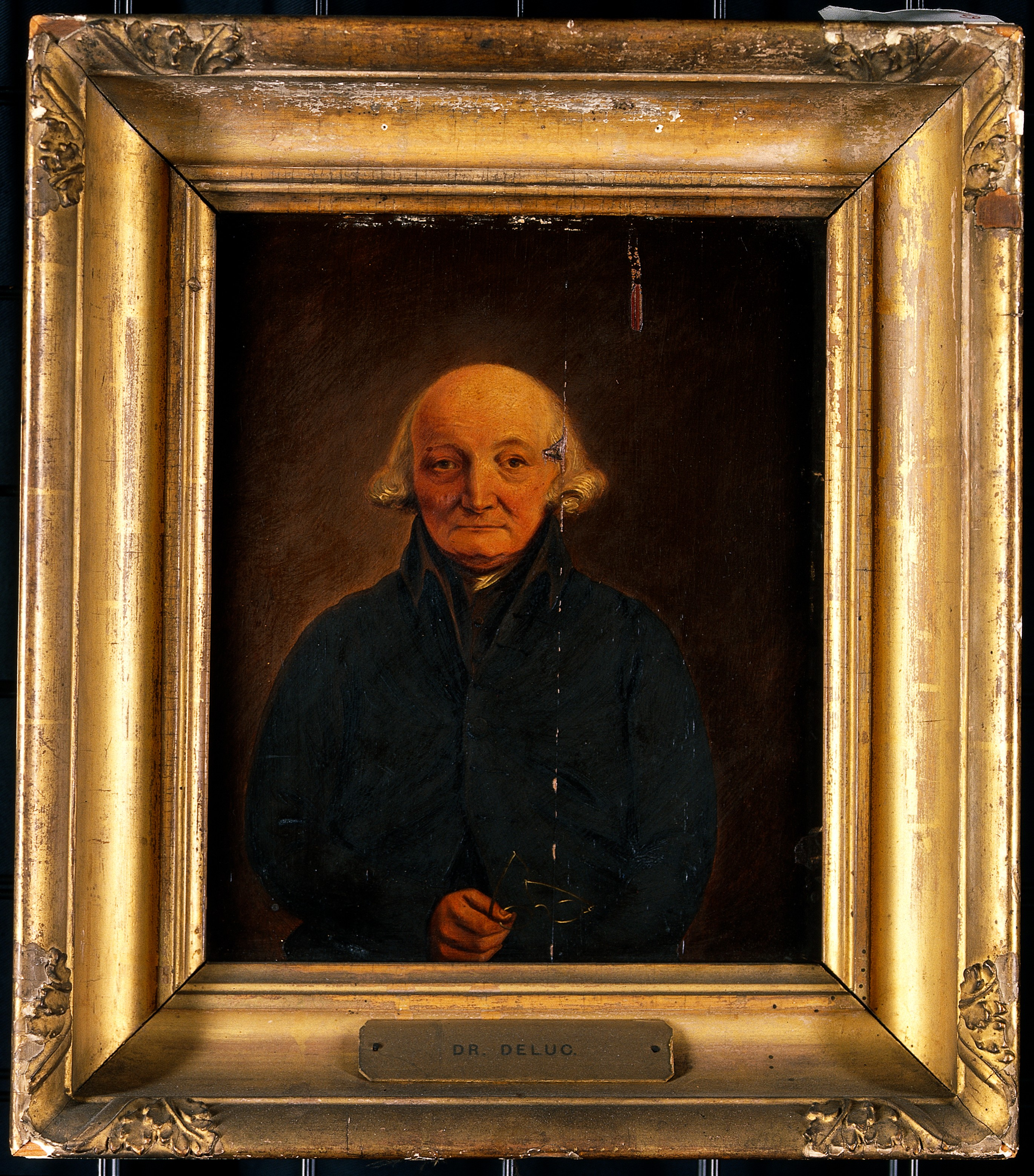 Jean-André Deluc. Oil painting. Iconographic Collections